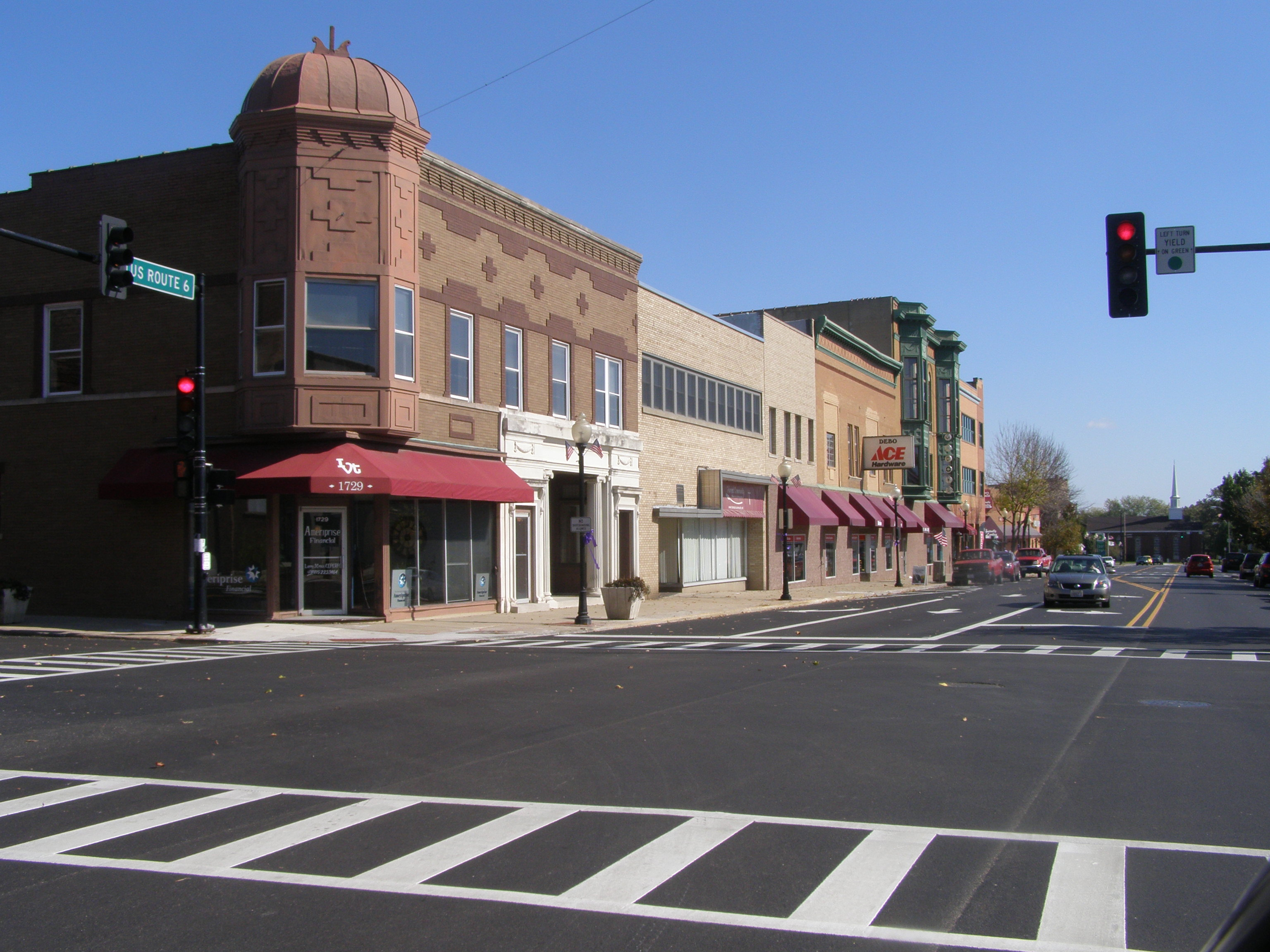 Somewhere in Central Illinois, between Princeton and Watseka on U.S. 6 or U.S. 24.